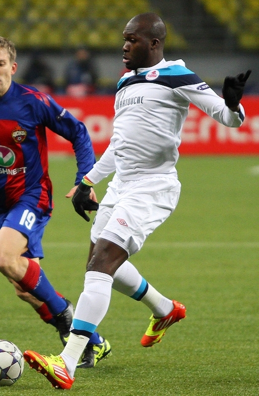 Senegelese football player Moussa Sow during 2011/2012 Champions League match between CSKA Moscow and Lille OSC